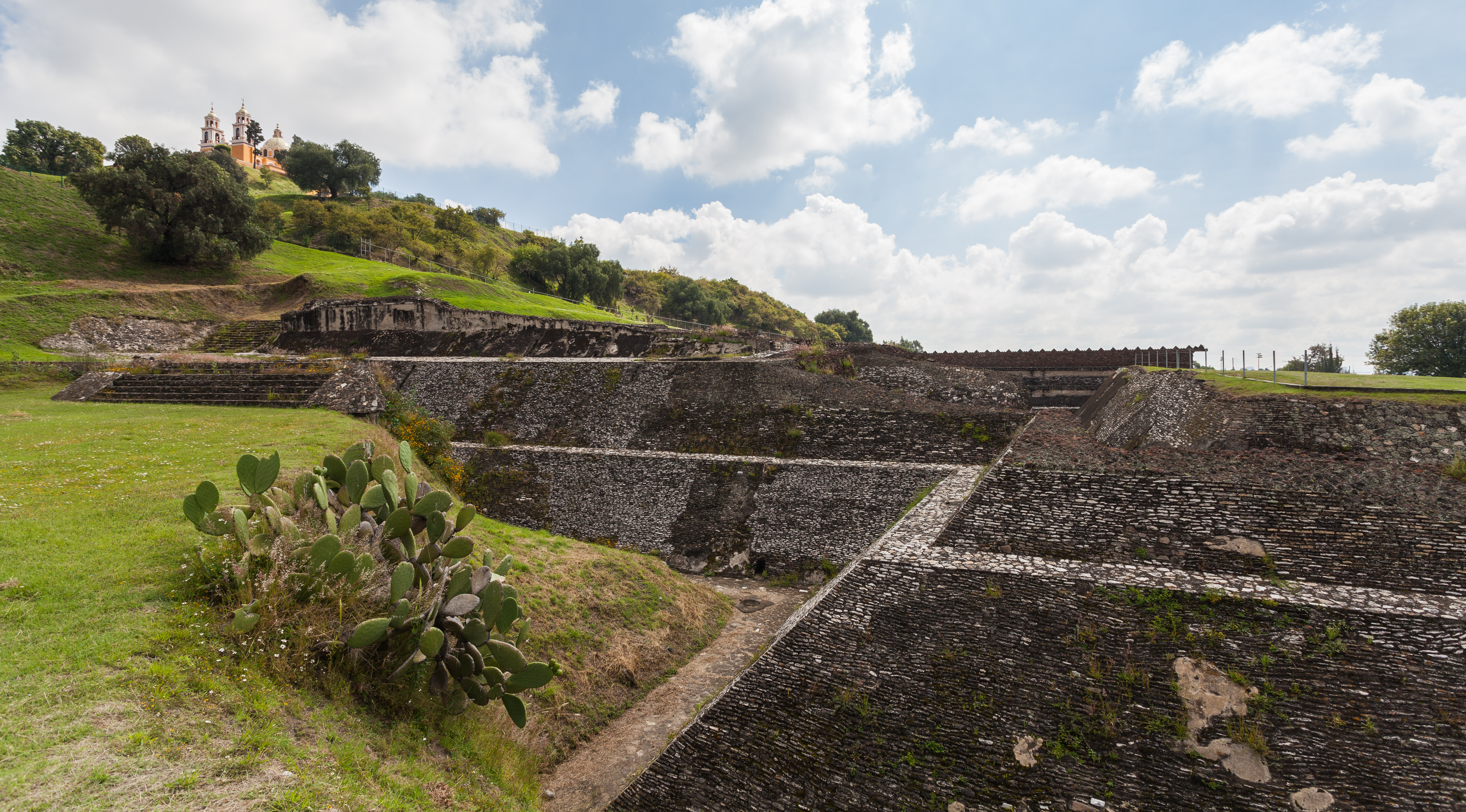 Great Pyramid of Cholula, Puebla, Mexico